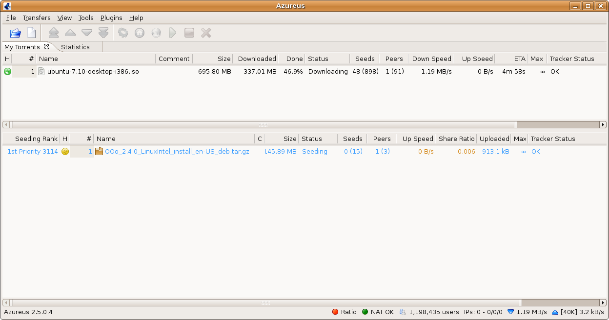 Screenshot of Azureus on ubuntu